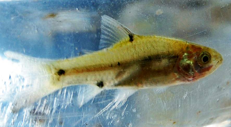 Puntius binotatus juvenile, 22 mm SL, from Ciliwung River, Bogor, West Java, Indonesia